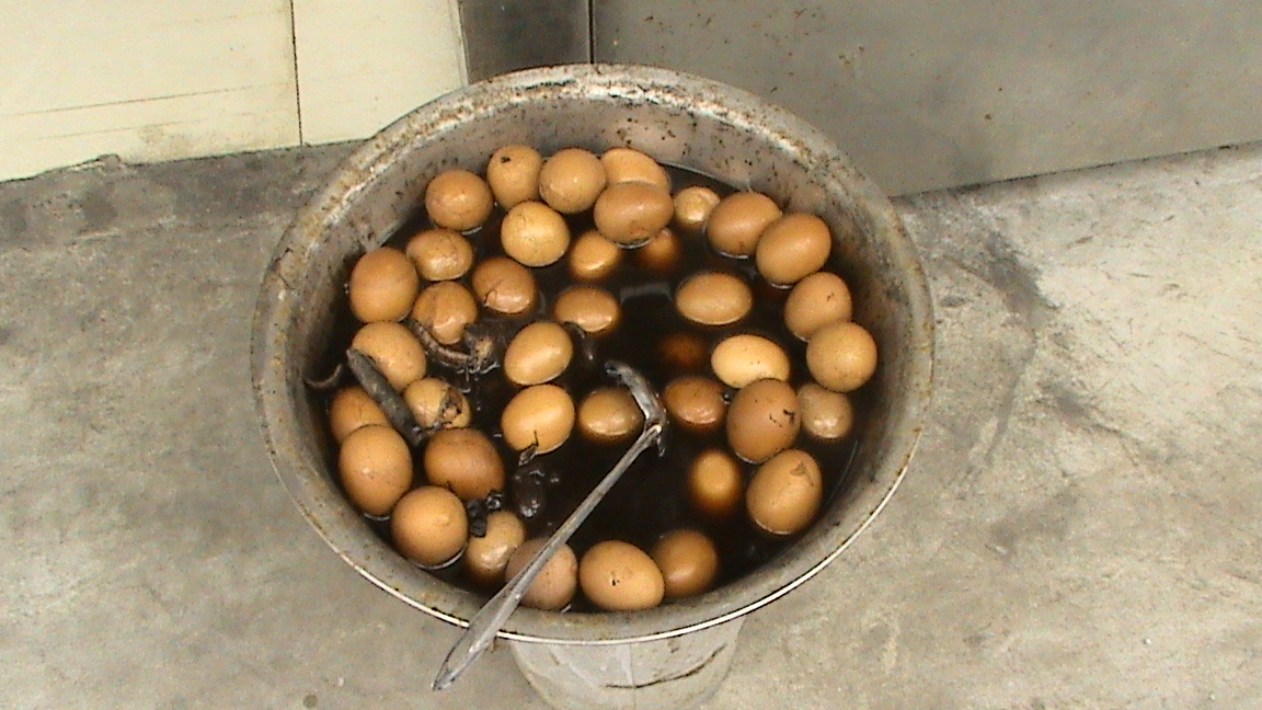 Tea eggs in metal bowl. Haikou, Hainan, China